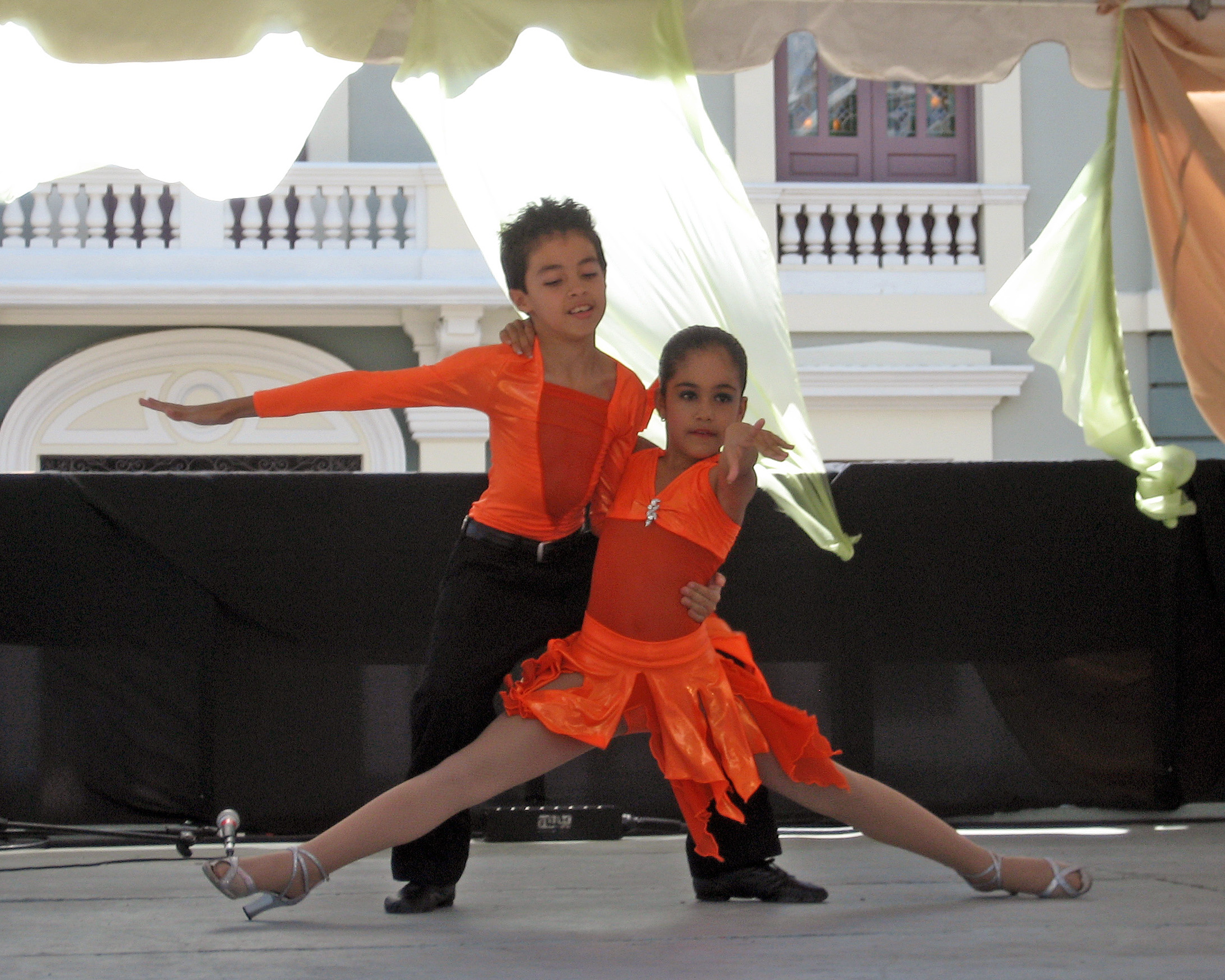 Children's dance show at Plaza Las Delicias during the March 2008 Ponce Crafts Festival.